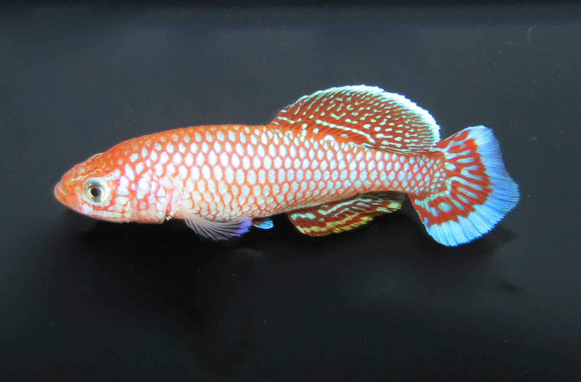 Nothobranchius polli male, collection "Kyembe ORCH 2008/02" Male